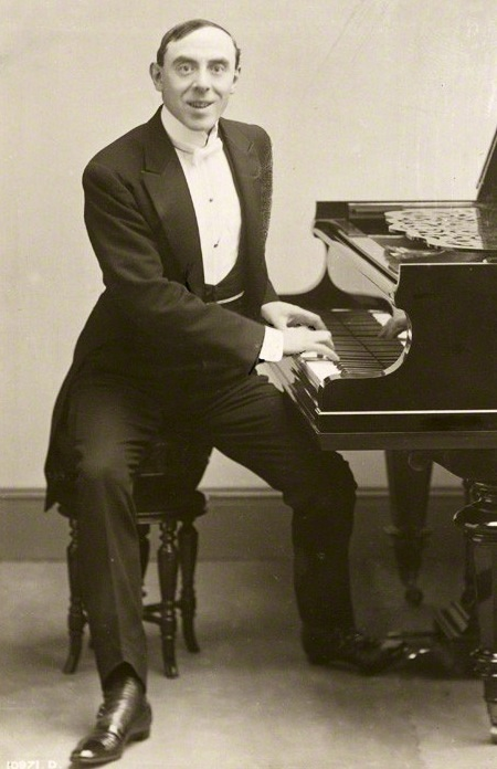 The English music hall singer Harry Fragson in the mid-1900s.